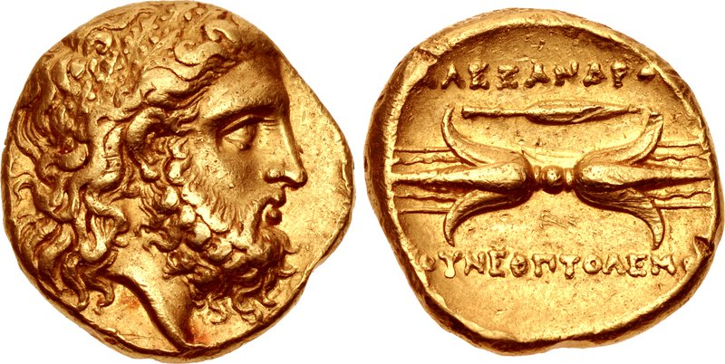 KINGS of EPEIROS. Alexander. 350-330 BC. AV Stater (17mm, 8.53 g, 2h). Tarentum mint. Struck circa 334-332 BC. Bearded head of Zeus Dodonaios right, wearing wreath of oak leaves / AΛEΞANΔPO[Y] [T]OY NEOΠTOΛEMO[Y], horizontal thunderbolt; above, spearhead right.